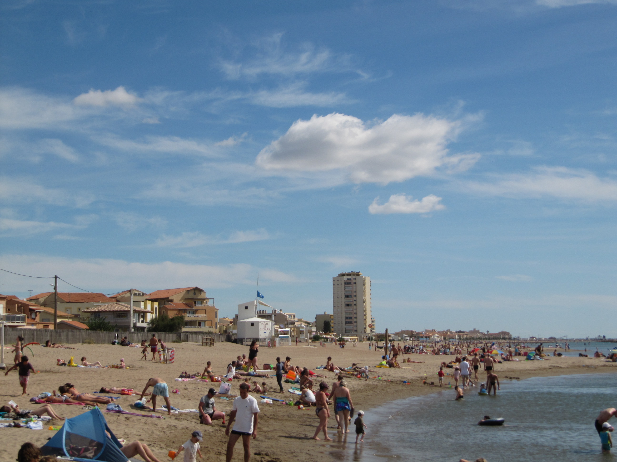 Valras-Plage, picture taken from Vendres Plage